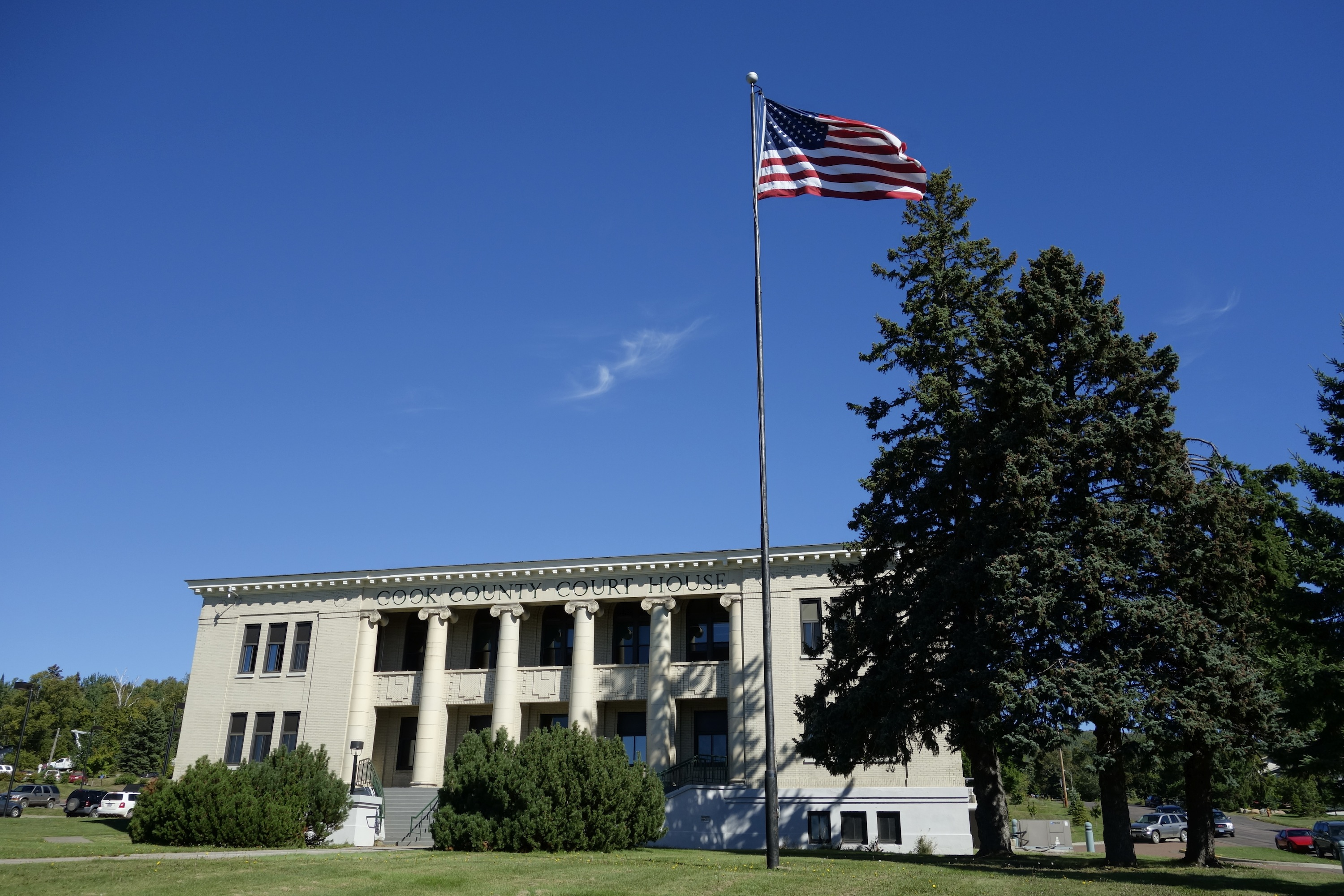 Cook County Courthouse